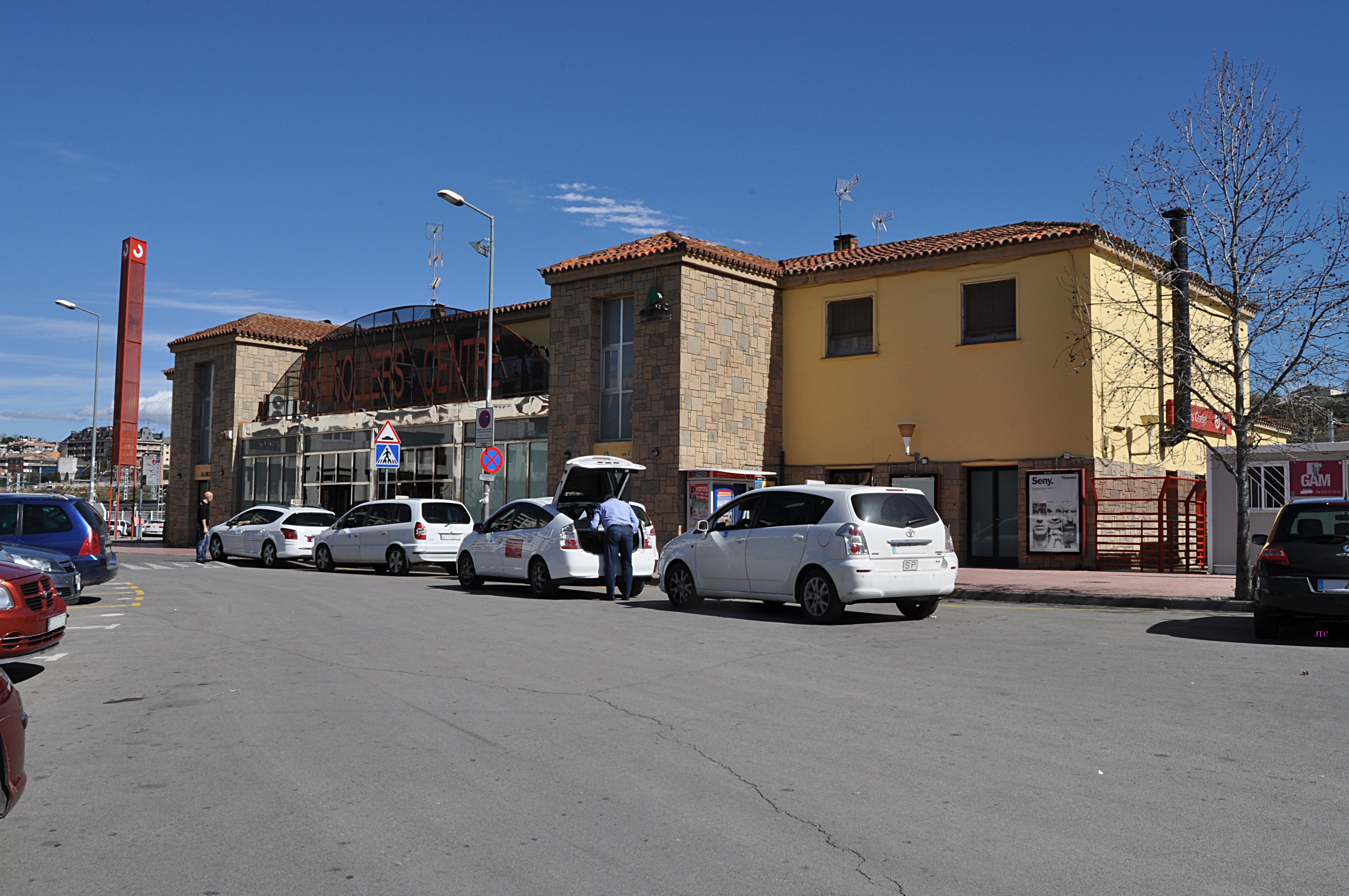 Granollers Centre railway station (Catalonia, Spain).